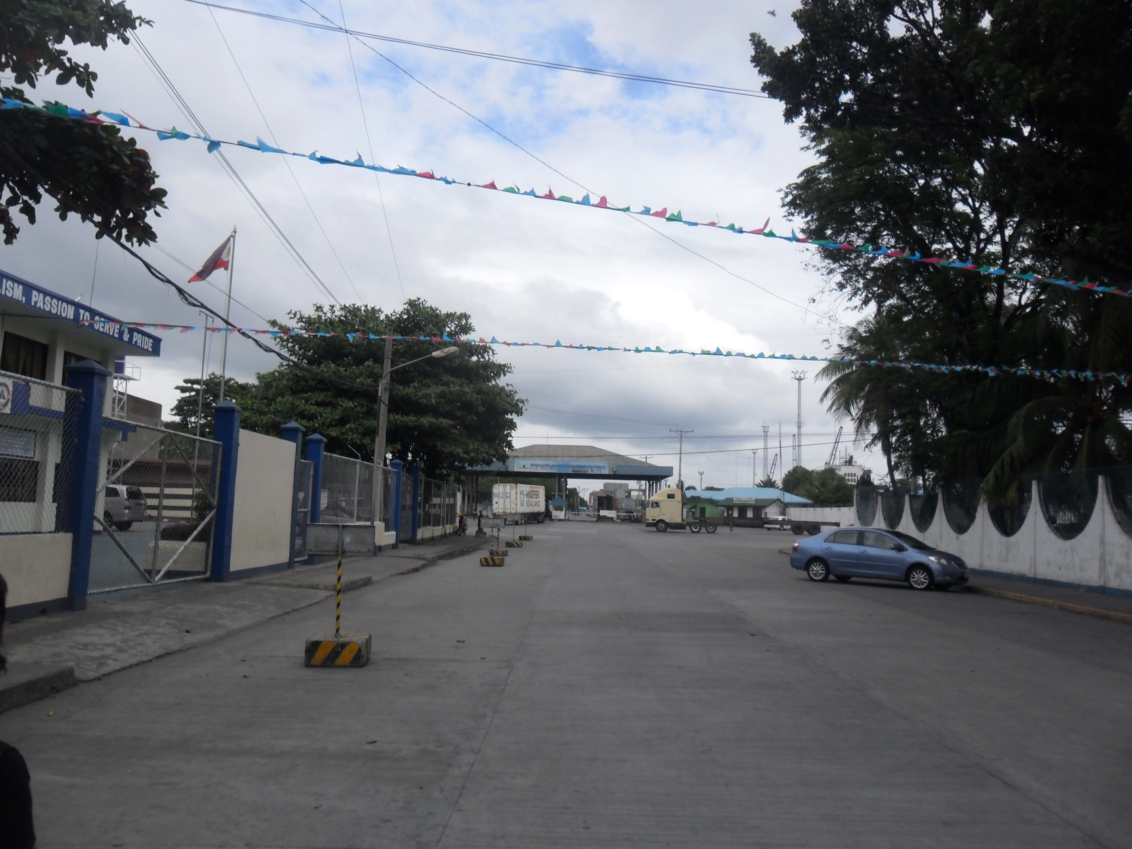 This is the vicinity of Port of Davao, to the left is the office of Coast Guard meanwhile to the right is the Bureau of Customs Port District office.